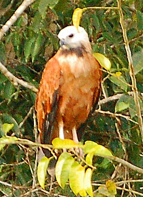 Busarellus nigricollis (Black-collared Hawk)